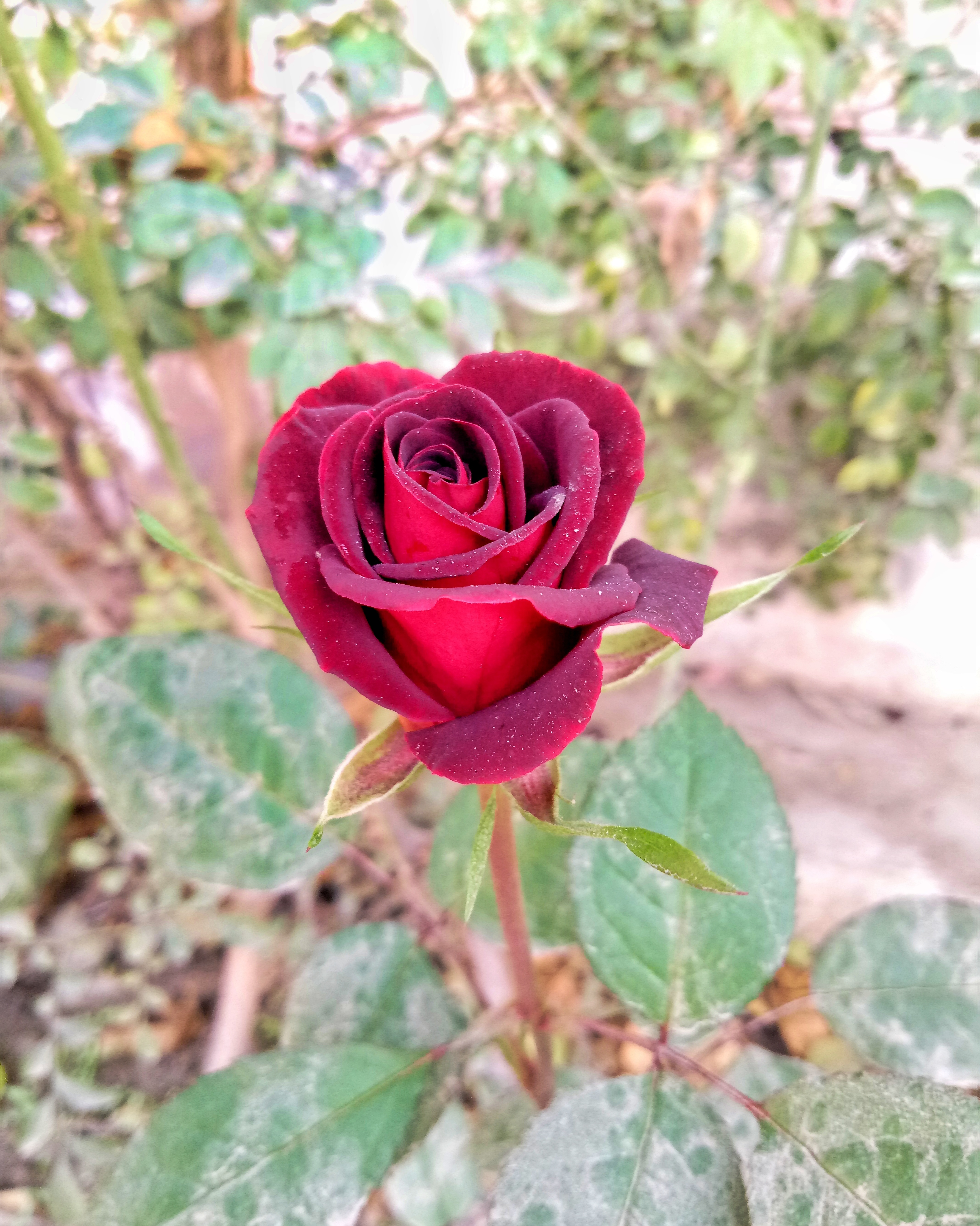 There is simply the rose; it is perfect in every moment of its existence.